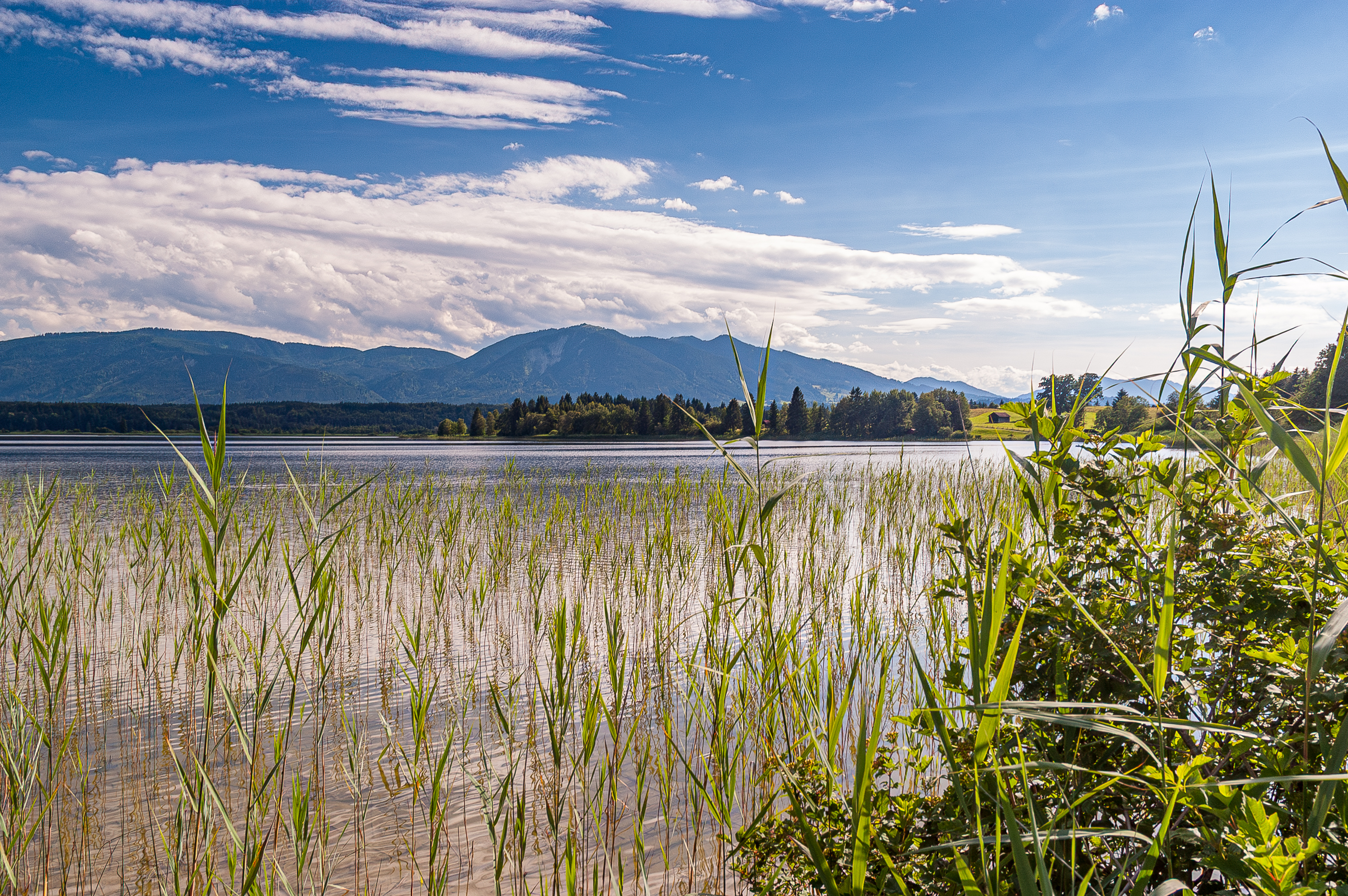 Exposure along the west coast of lake Staffelsee in region Oberland, Bavaria, Germany. View from near Uffing to SSW direction.